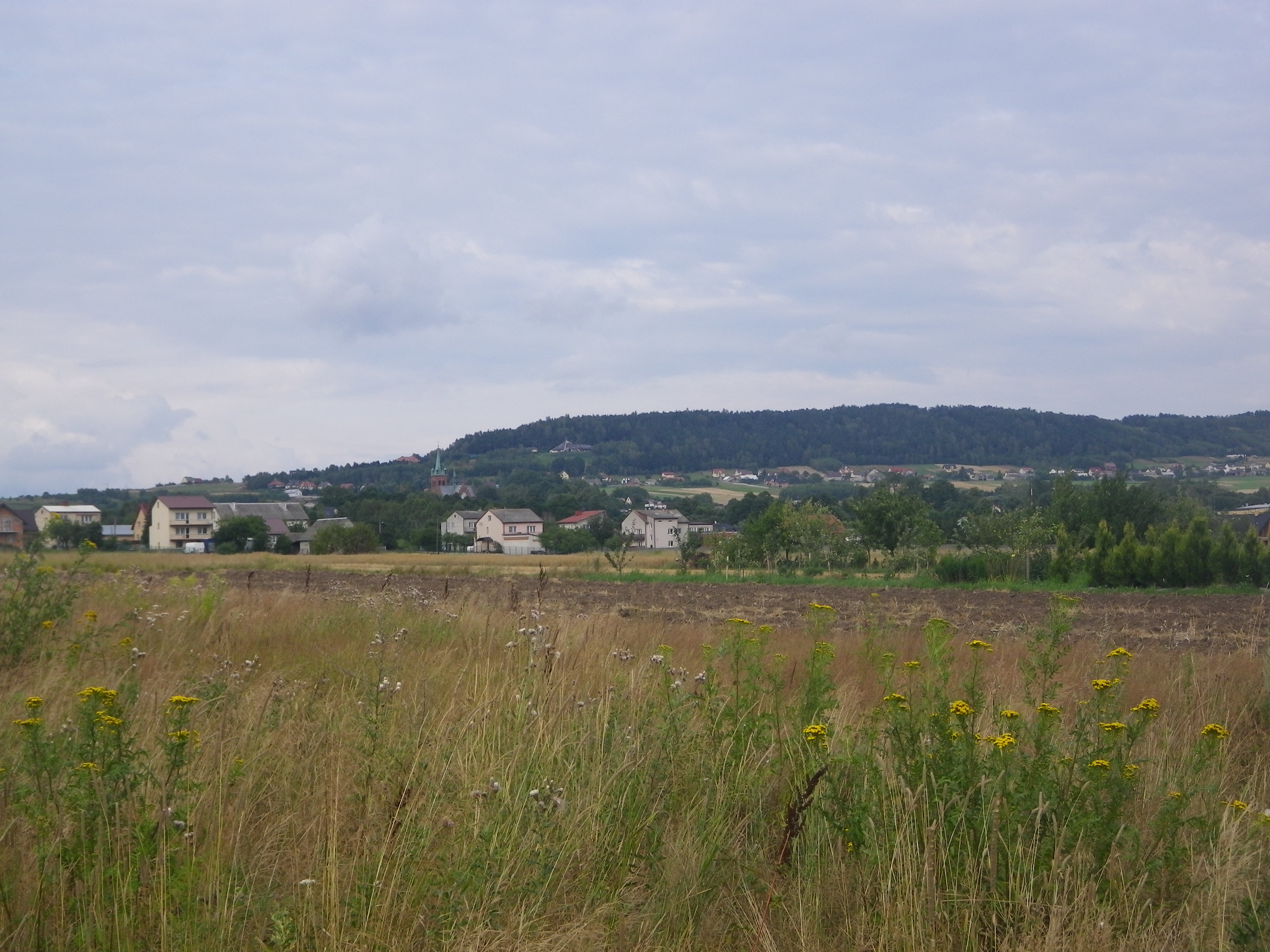 Masłów Pierwszy village from Świerczyńska street - visible is Pasmo Masłowskie range.